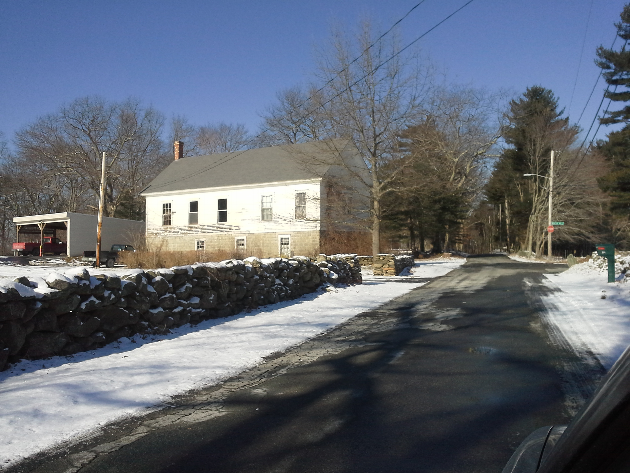 Grange Building on Grange Road in Primrose RI in the town of North Smithfield Rhode Island